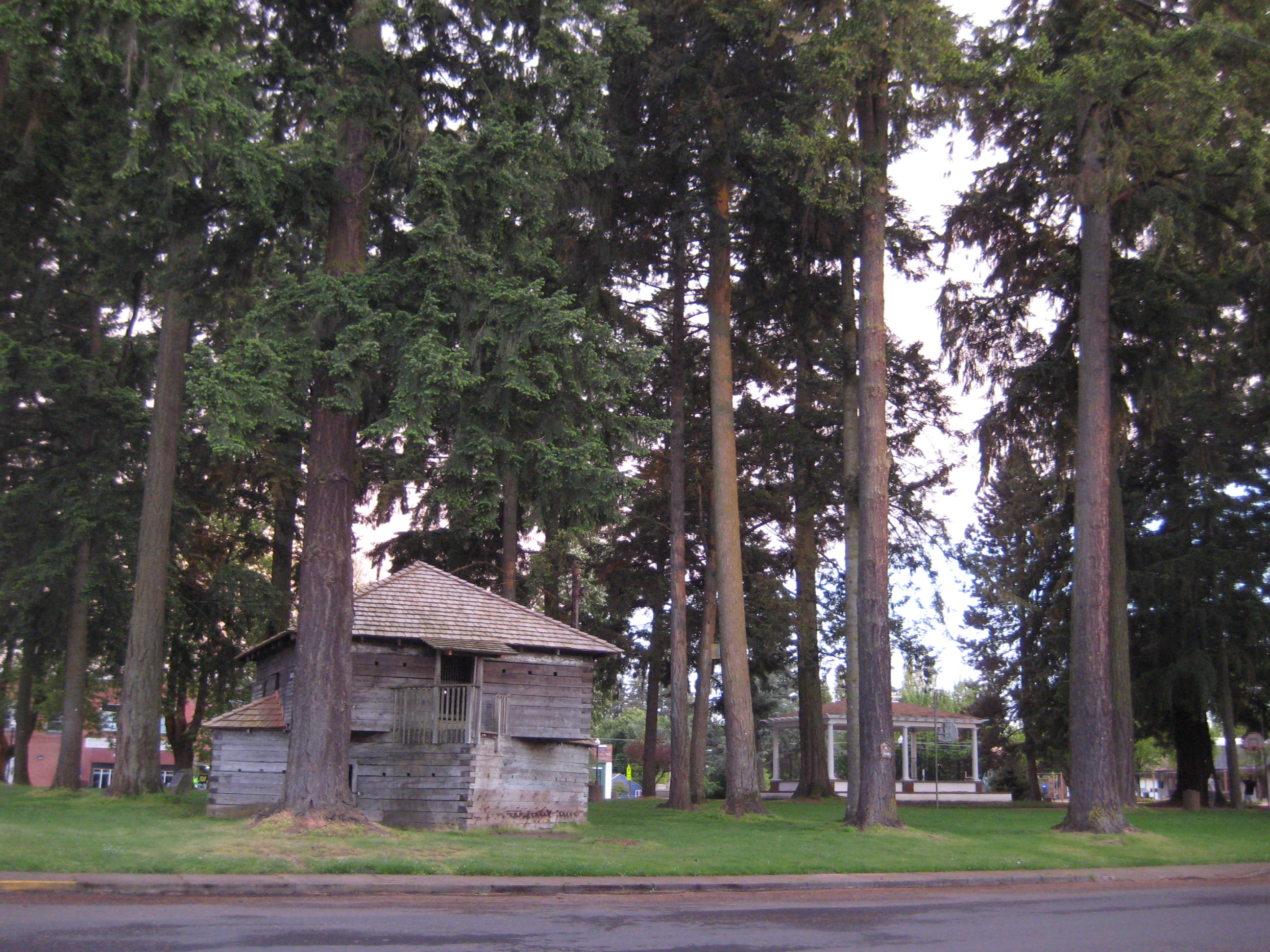 A view of Courthouse Square Park in Dayton, Oregon looking south from Main Street. This view shows the original Fort Yamhill Blockhouse (brought to Dayton in 1911) as well as the Bandstand.